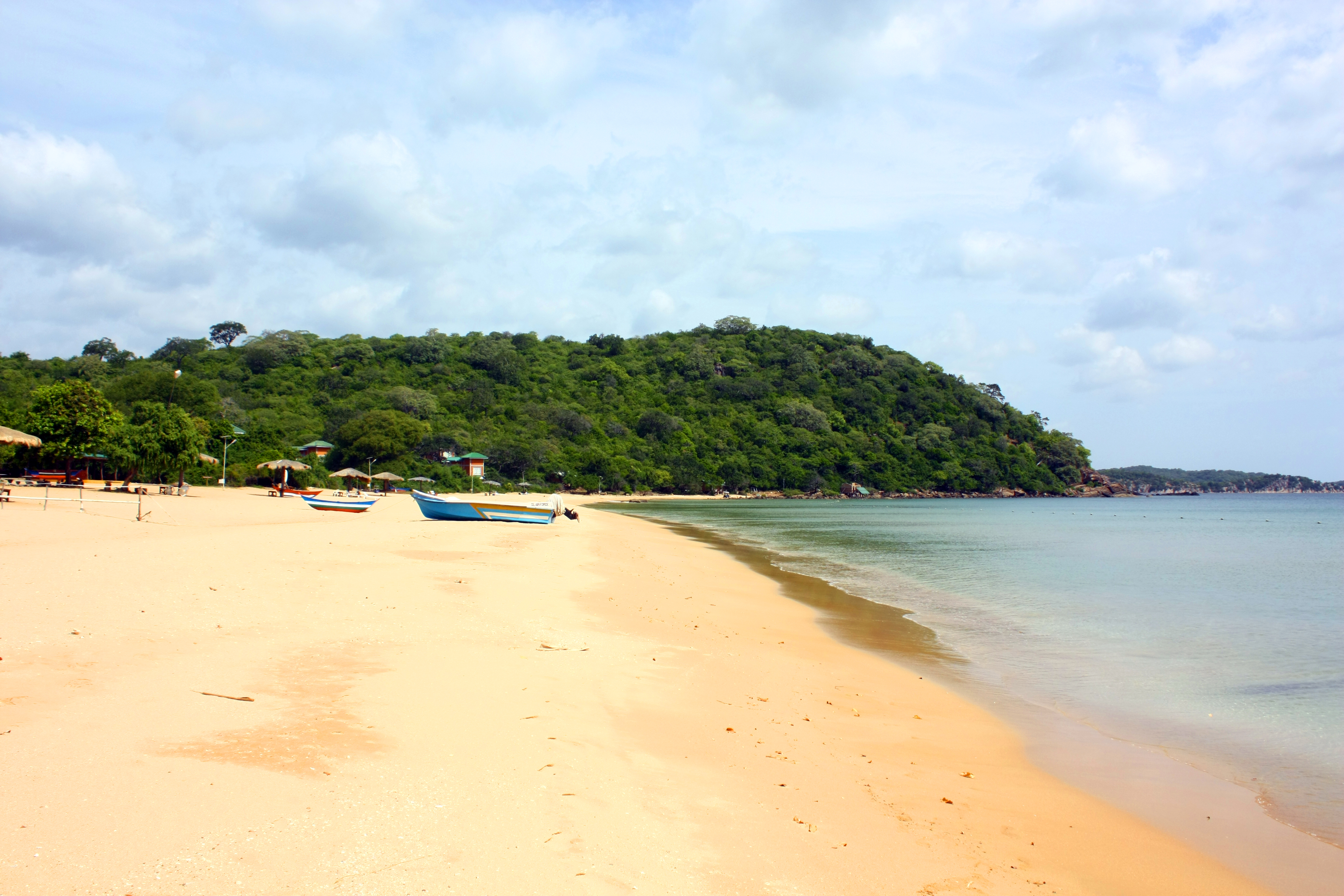 Marble beach, Trincomalee